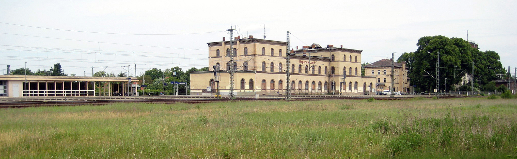 Hagenow Land east front